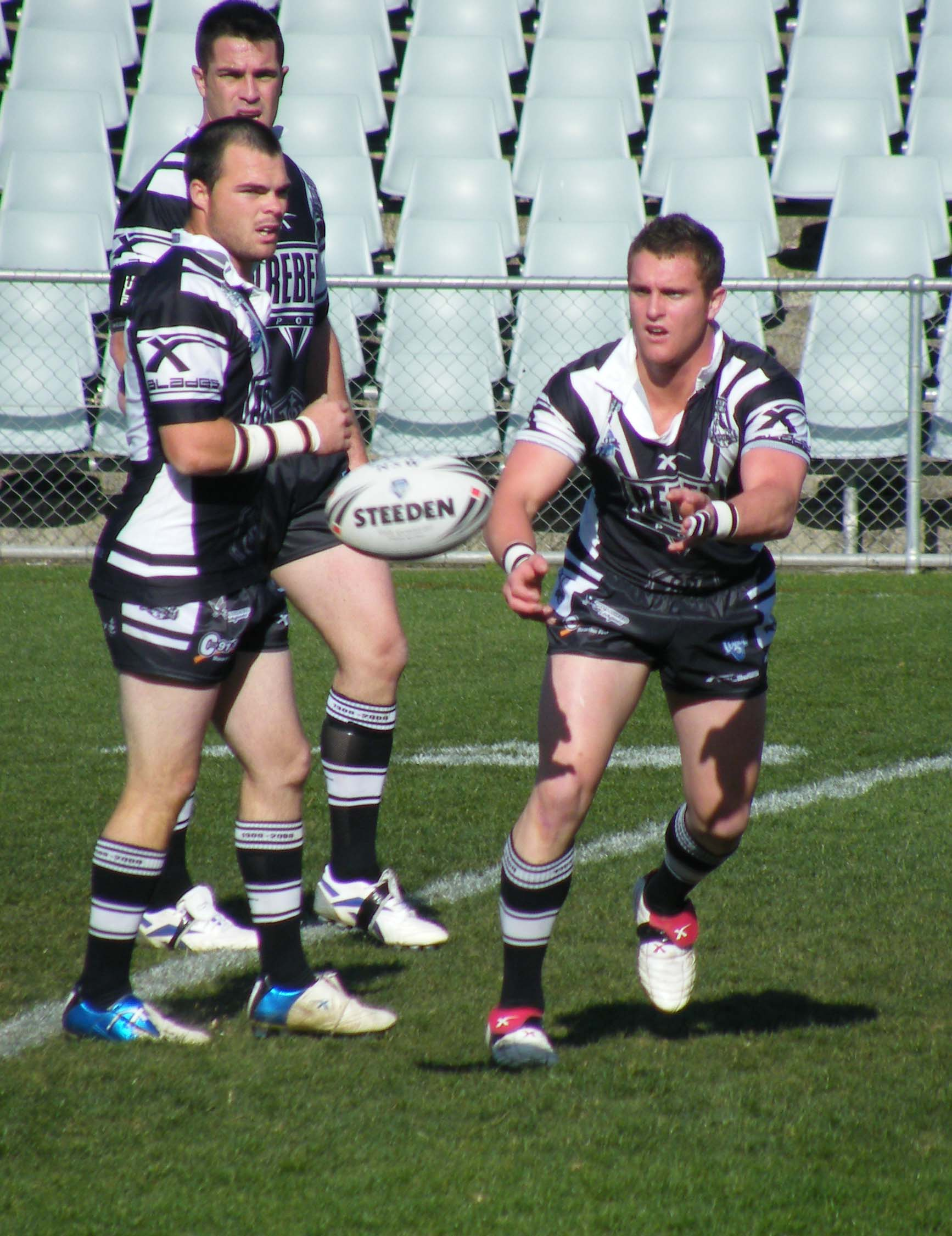 Wests Hooker Stuart Flanagan